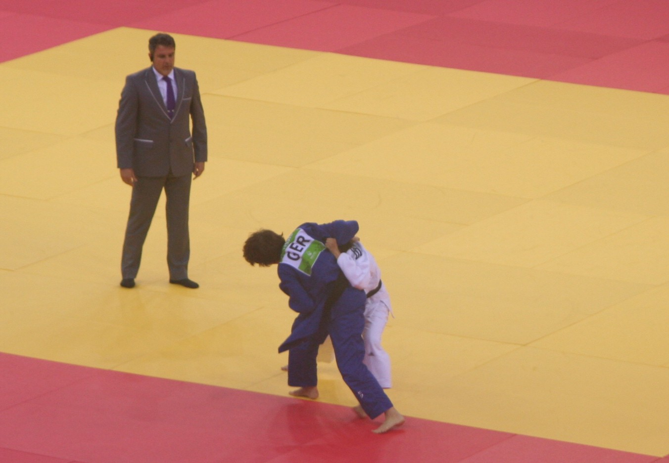 Koseoglu (TUR) vs Brussig (GER) at the bronze final of the 2015 European Games